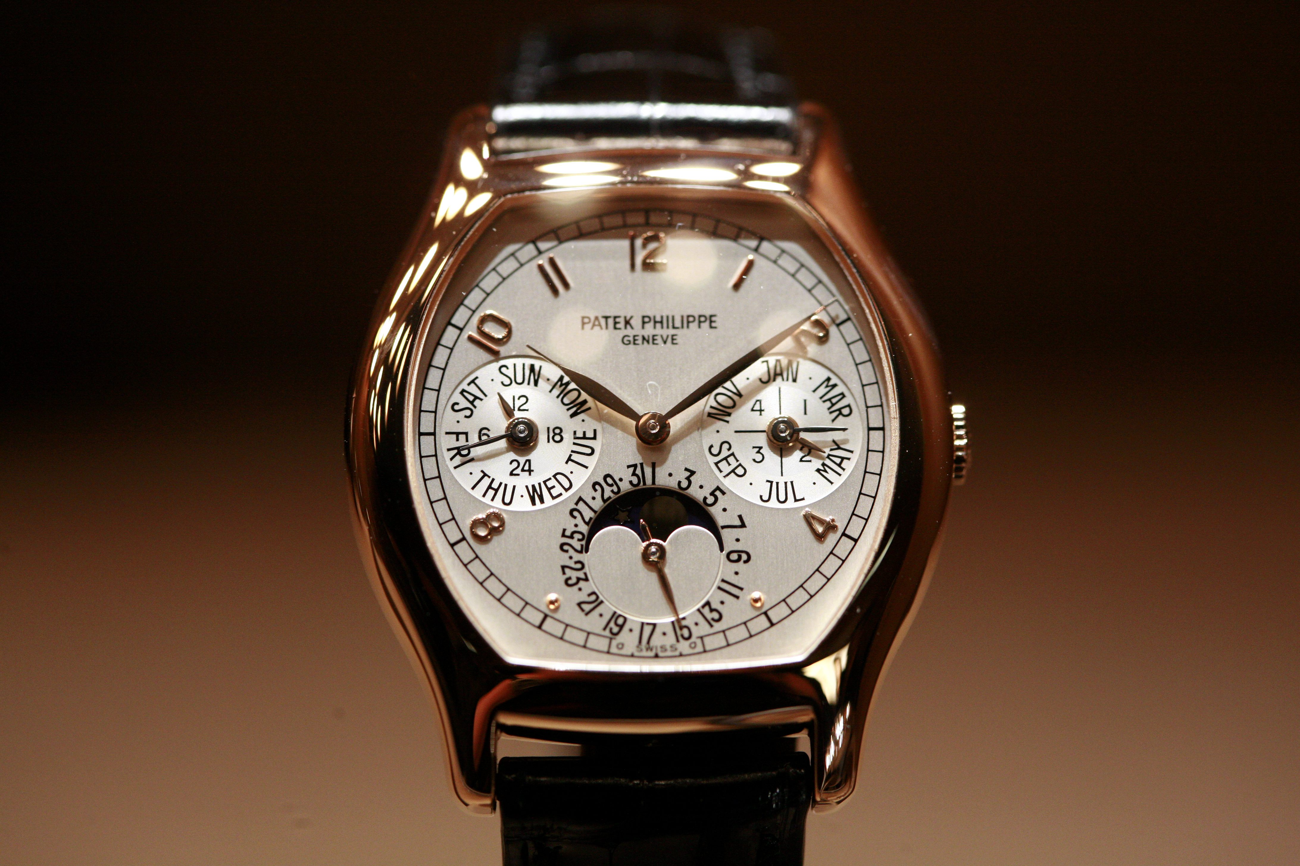 Patek Philippe & Co. watch